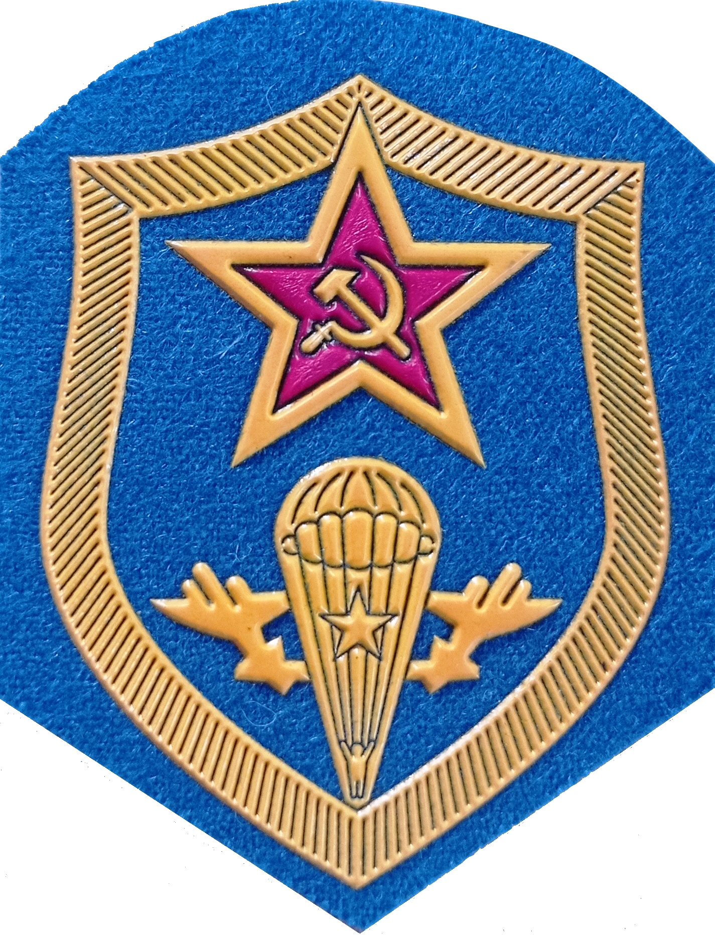 Emblem of the soviet armed forces 1960 to 1991, Soviet Army (military branches, service branches or armed services), sleeve badge (appliquéd) right hand upper arm (dress uniform/ parade uniform) to be used for the ranks OR1 to 8, and WO1 to 2, here: – “Airborne troops”, design 1985.